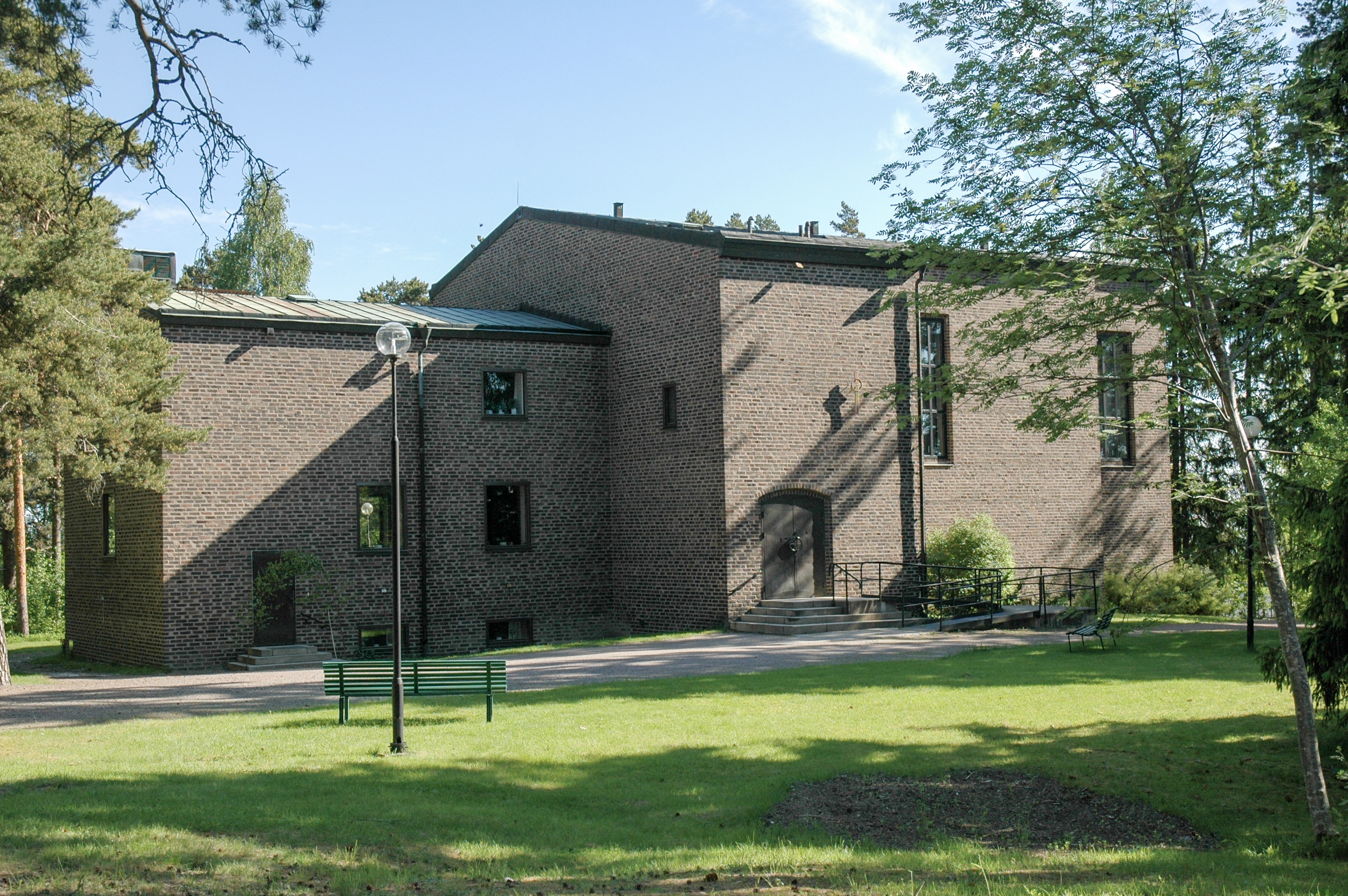 Pictures from the "Bergslagssafari" that Swedish Wikipedia performed between 4th and 6th of June 2010.